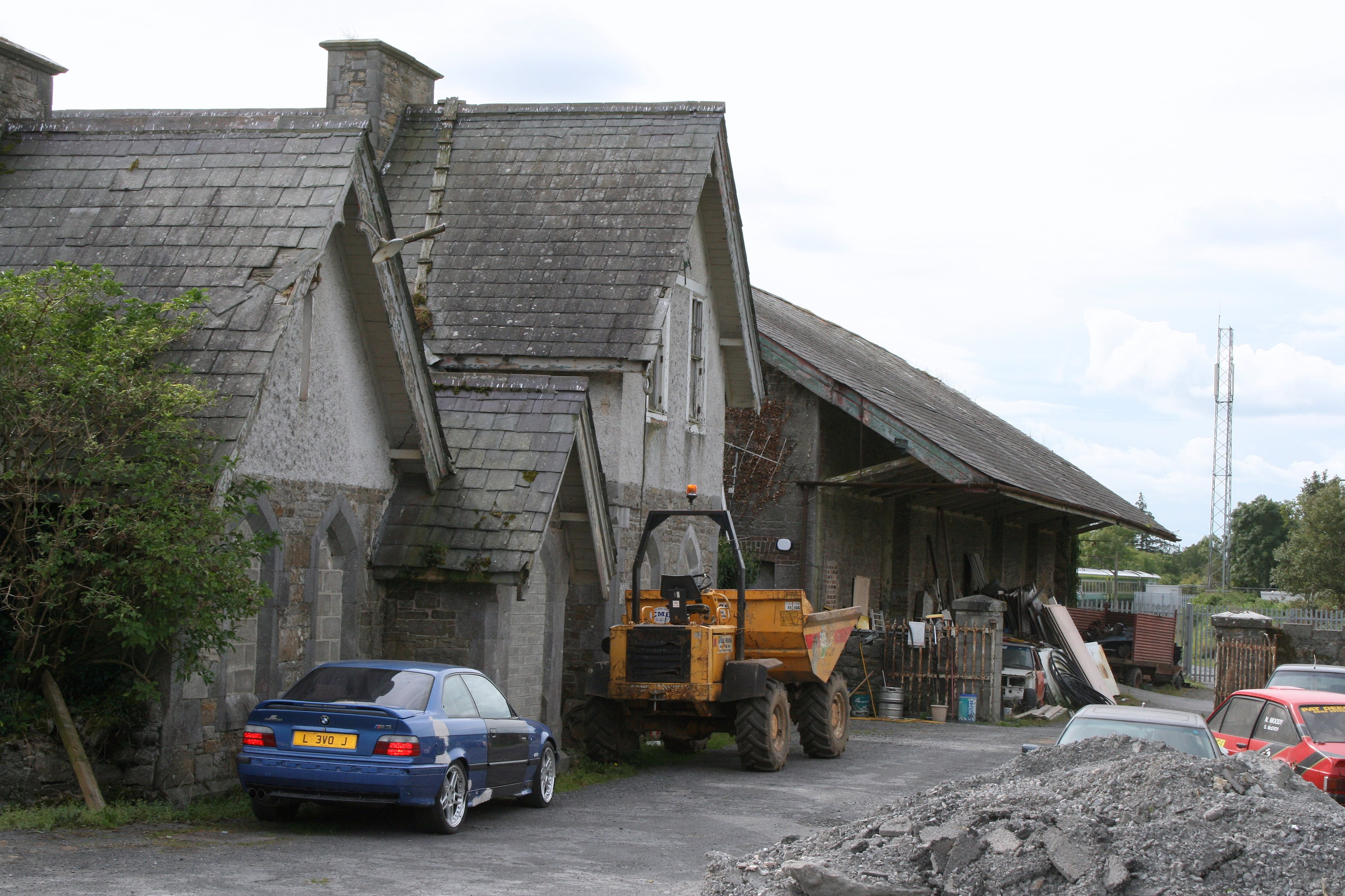 Buildings beside railway at Kilbricken, County Laois, Ireland